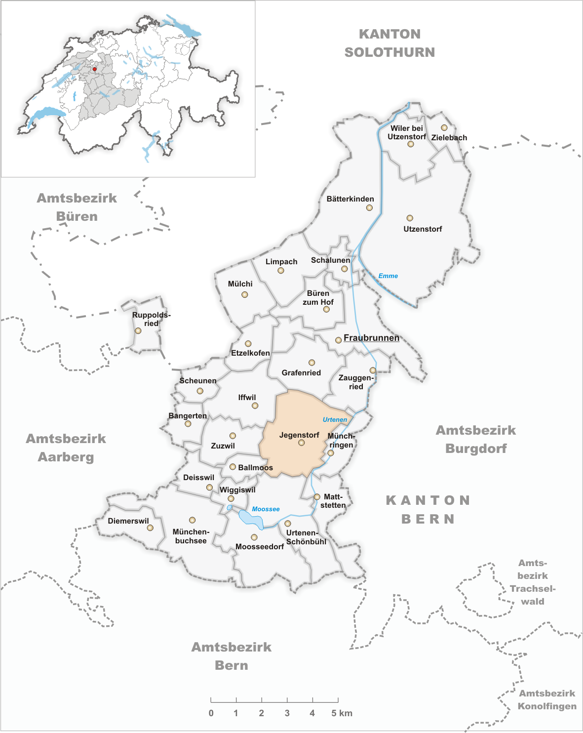 Municipality Jegenstorf